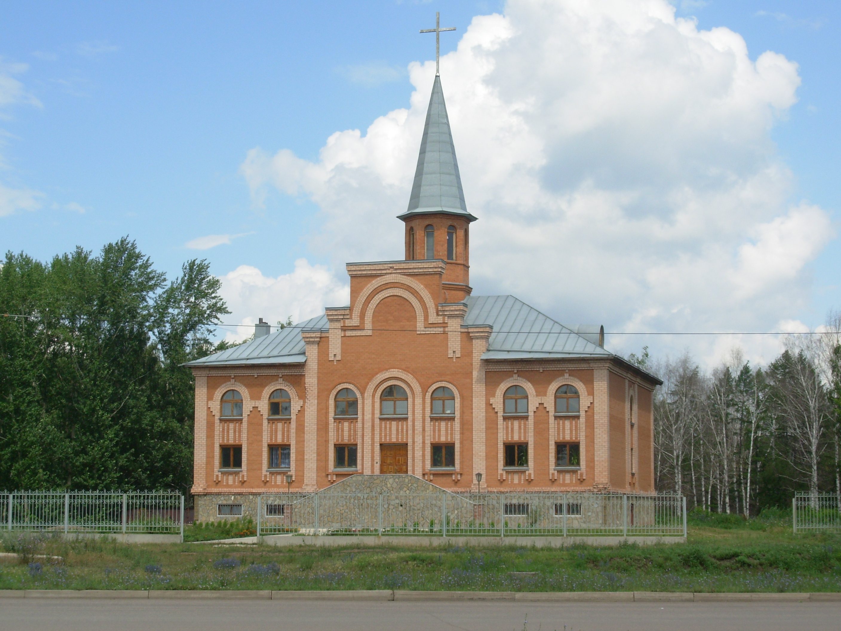 street